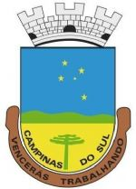 Coat of arms of the city of Campinas do Sul, Rio Grande do Sul, Brazil.